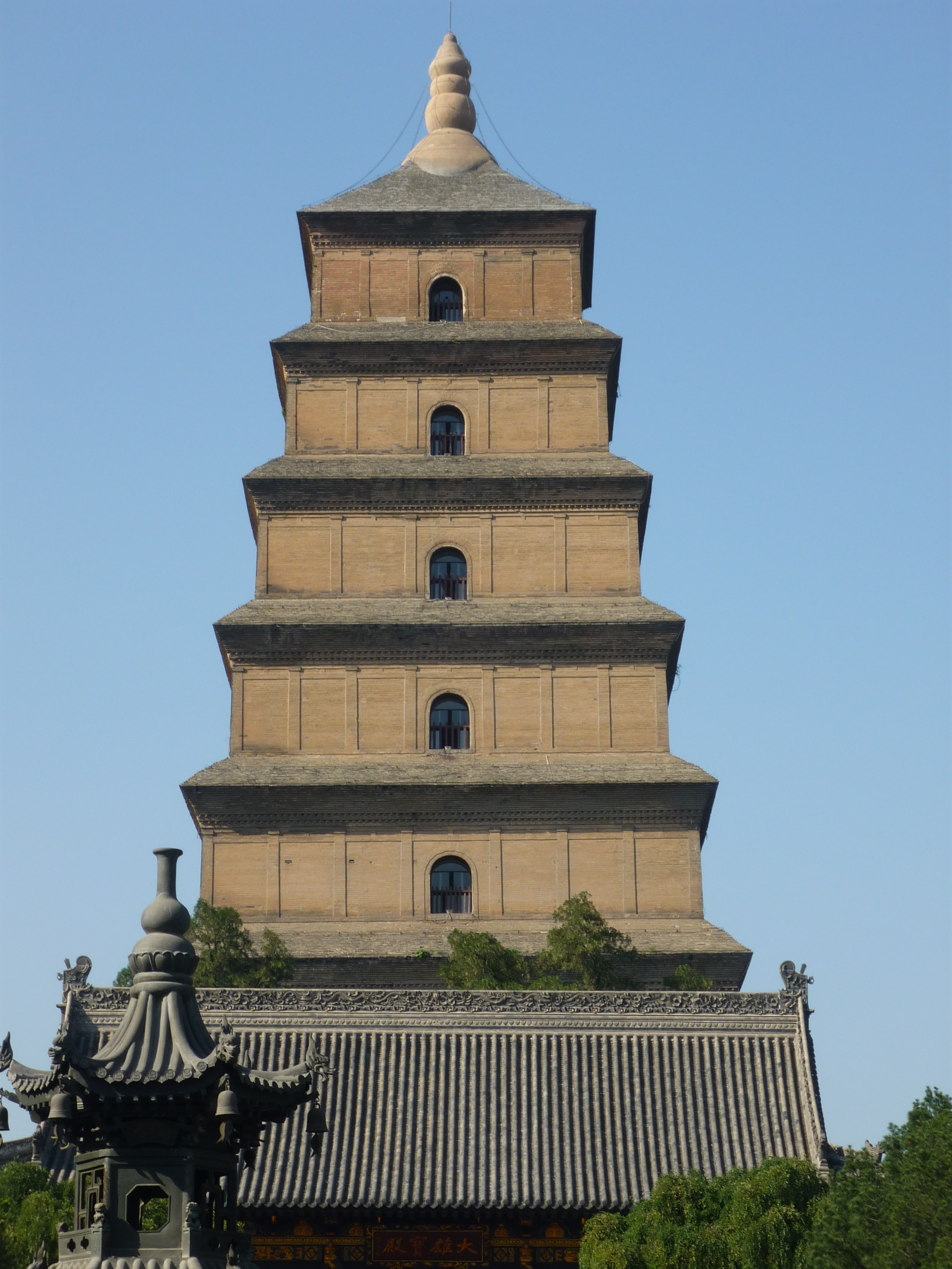 Big Wild Goose Pagoda (大雁塔; Dàyàn Tǎ), is a Buddhist pagoda located in southern Xi'an, Shaanxi province, China.